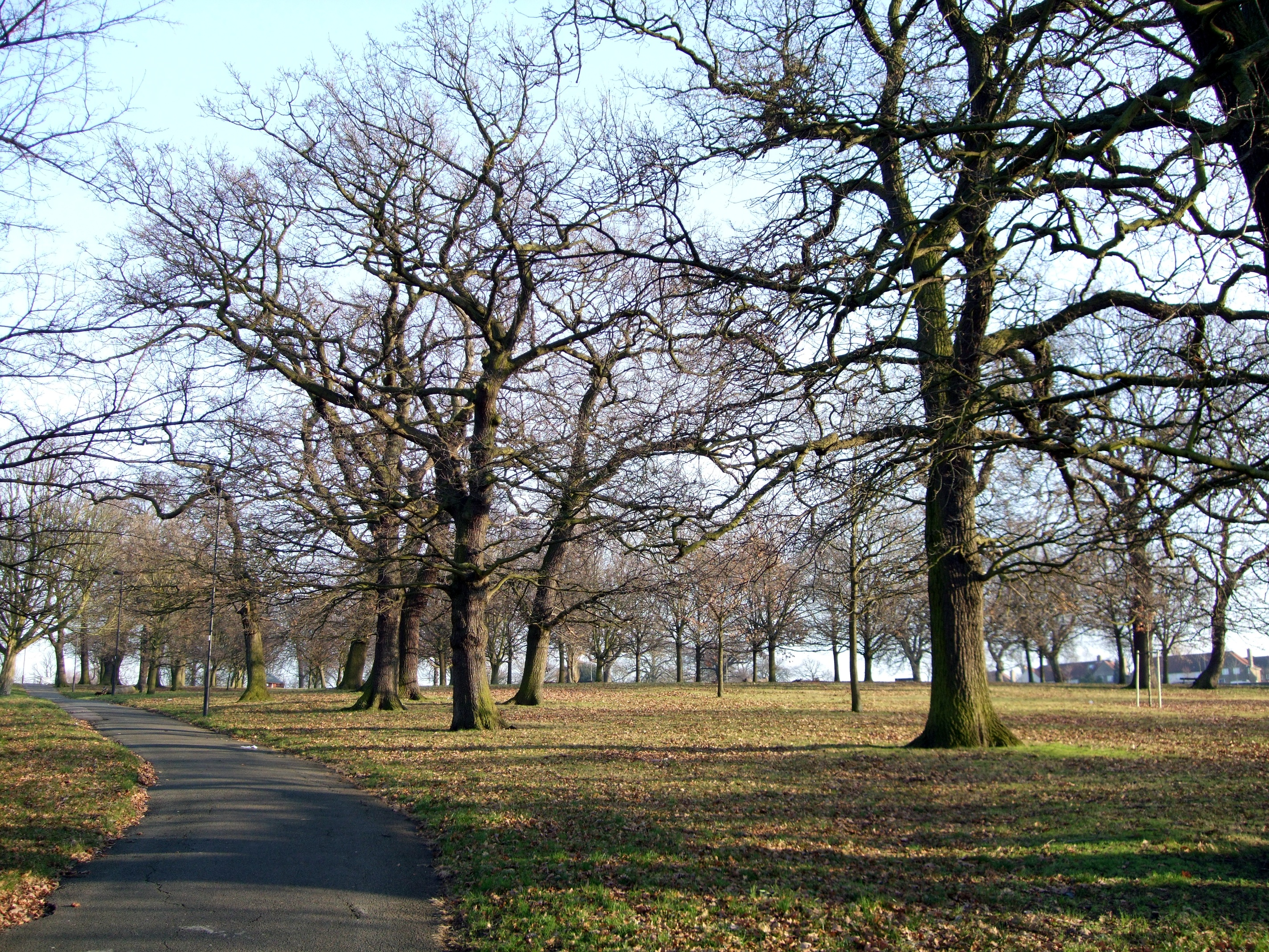 At the south-west corner of this pretty park. Photo taken December 2008. Owner: London Borough of Lambeth.